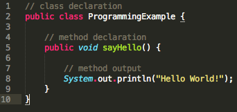 This is an example of classes and methods as implemented in the Java programming language.